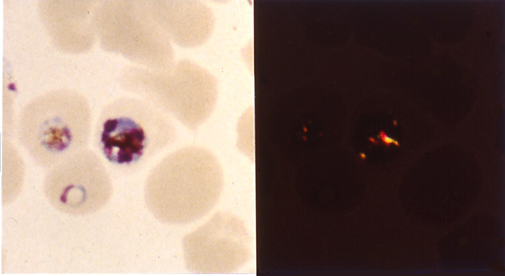 Hemozoin formation in P. falciparum, many antimalarials are strong inhibitors of hemozoin crystal growth. Birefringence of hemozoin. Left: Giemsa-stained thin blood smear. Right: the same field viewed with polarized light (magnification x 3 000).